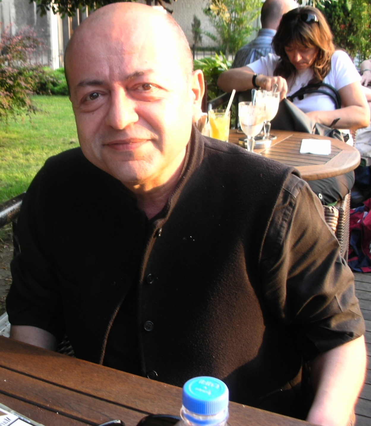 Turkish author